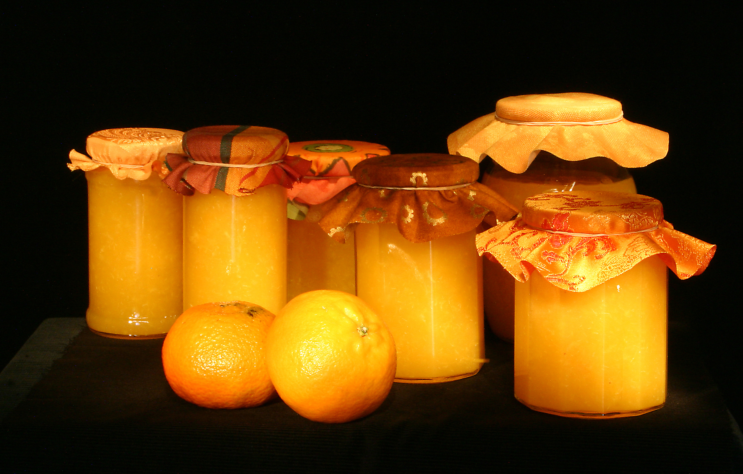 Marmelade made of mandarins